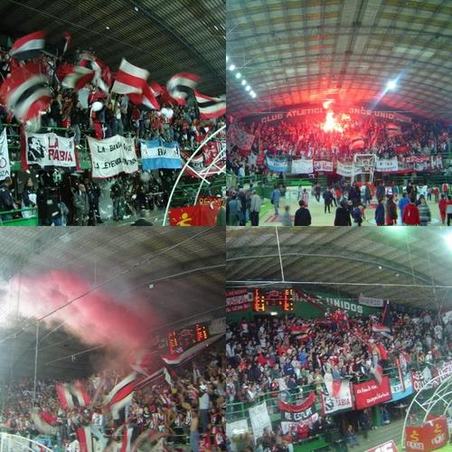 Author: Philip Giddings Source: handheld digital camera self snapped URL: etc: how you see me